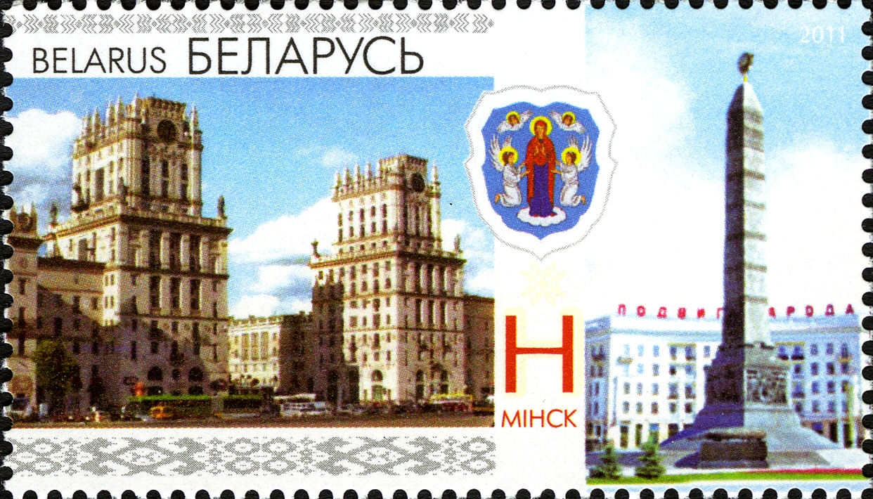 Stamp of Belarus